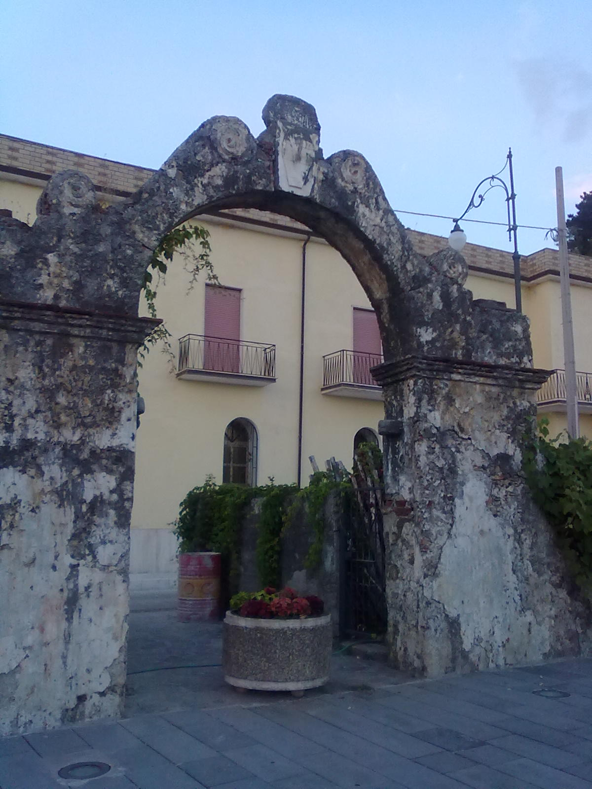 Old gate in Capitello near Ispani